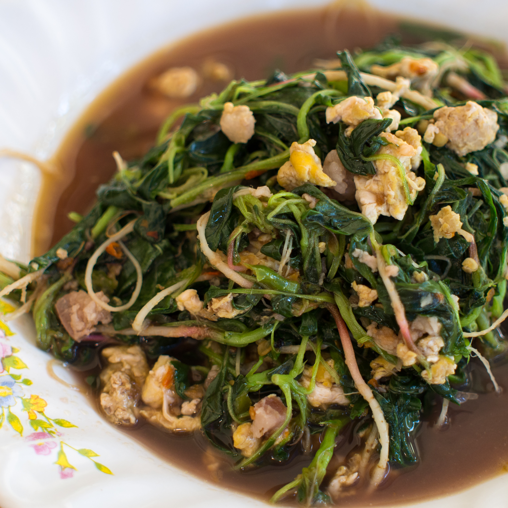 Phat phak khom (Thai script: ผัดผักโขม): stir-fried Thai spinach (Amaranthus spinosus; Thai name: Phak khom nam; Thai script: ผักโขมหนาม) with minced pork and egg.